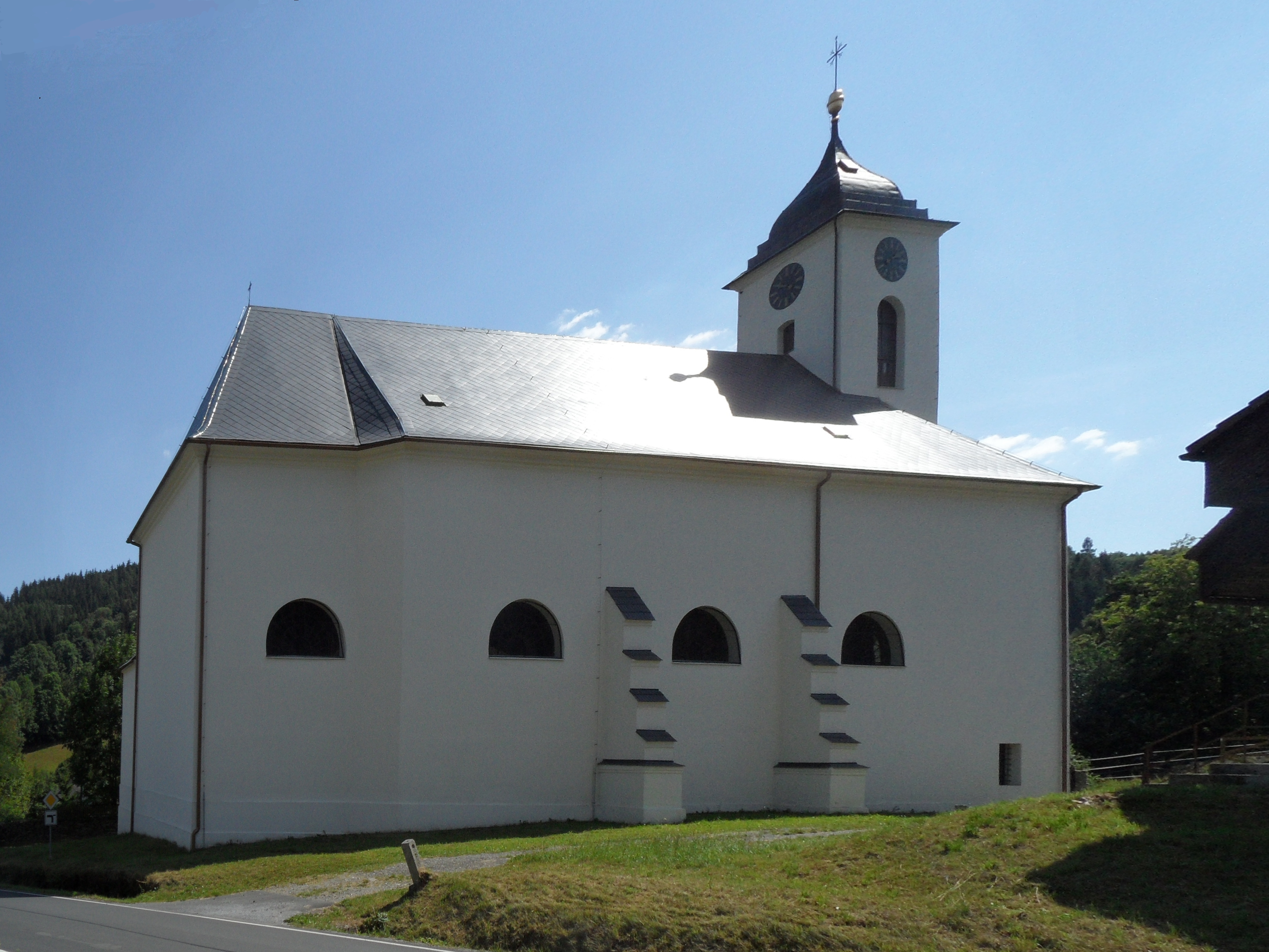 Petrovice (okres Bruntál) A. Church of Saint Roch, Overview from North-West (from Road No. II/457). Bruntál District, the Czech Republic.